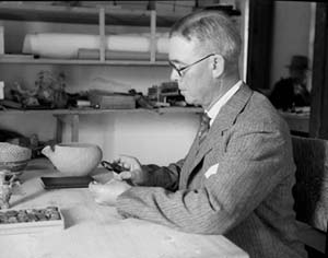 Dr. William Frederic Badè examining the Seal of Jaazaniah. (see associated text in image info at this link) Badè led the excavation at Tell en-Nasbeh through 5 seasons work 1925-1935. He published a paper on the onyx seal in 1933. "Although not trained as an archaeologist, Badè carried out his excavation at Tell en-Nasbeh based on the highest standards of his day. He cleared about two thirds of the site, intending to test its identification with biblical Mizpah of Benjamin, which is now generally accepted. The method he employed was the so-called Reisner-Fisher method, dividing the tell into 10-meter squares and excavating in strips. Following the excavation, the strips were filled in. Badè kept meticulous records, including plans, photographs, and descriptions of about twenty-three-thousand artifacts, all of them drawn to scale.Aaron Brody. "Bade Museum: William Frederic BadÃ¨ (Participant)" (Released 2010-02-17). Aaron Brody (Ed.) Open Context